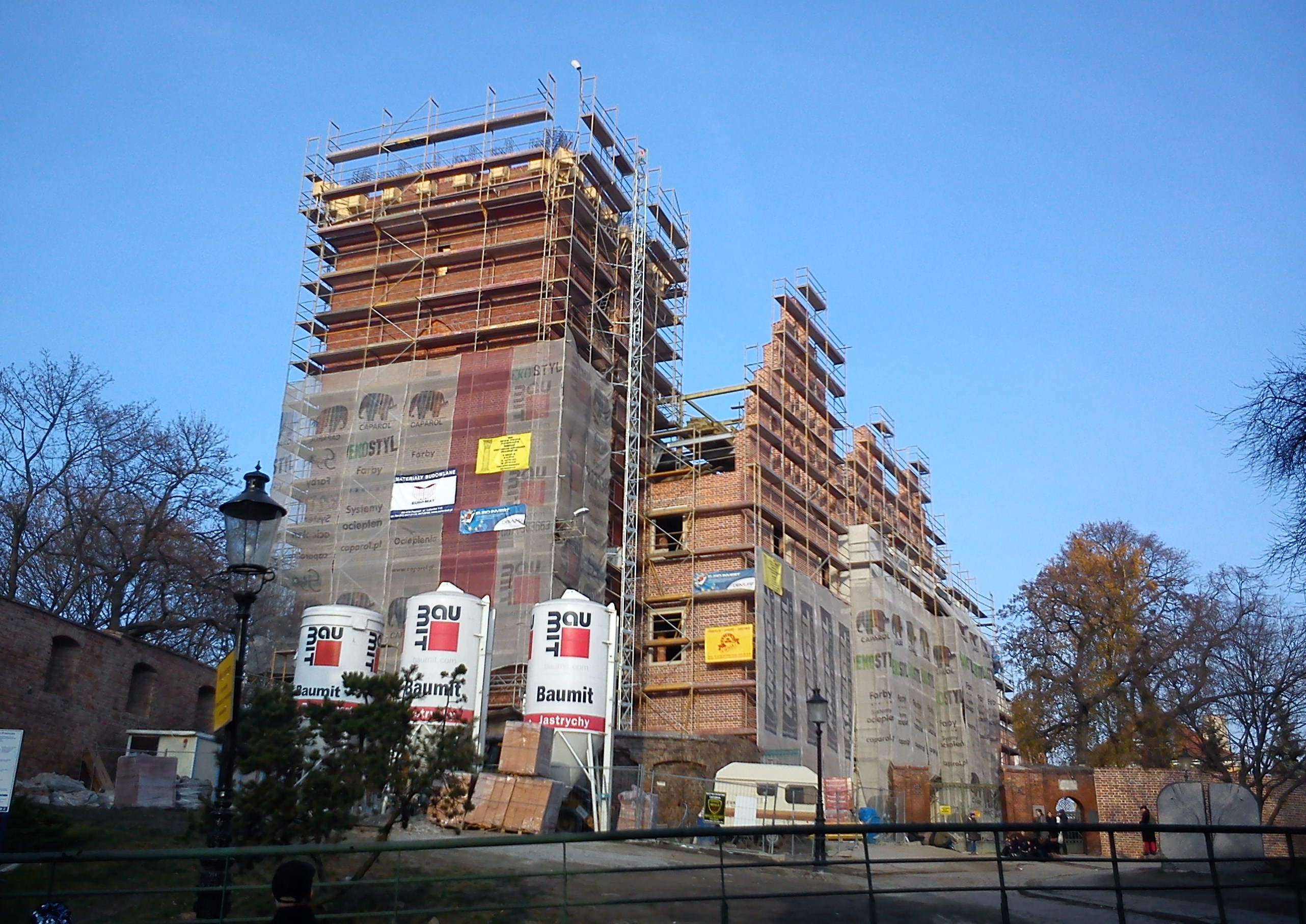 Construction of the royal castle in Poznań. 20.11.2011.